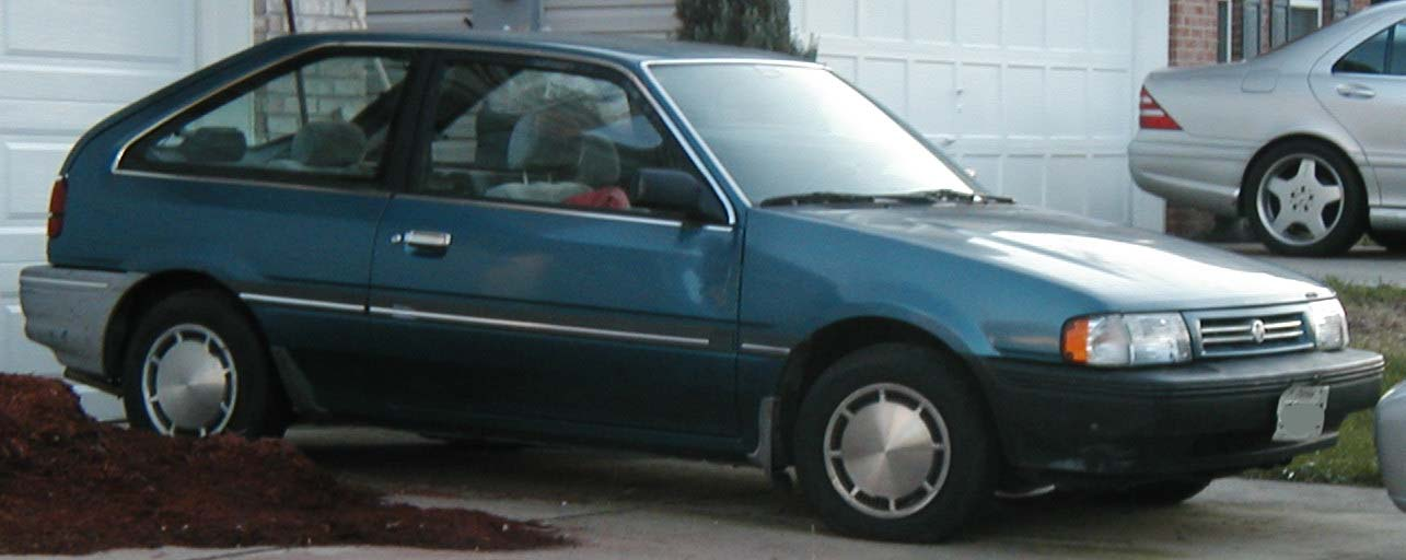 1988-1990 Mercury Tracer photographed in USA.